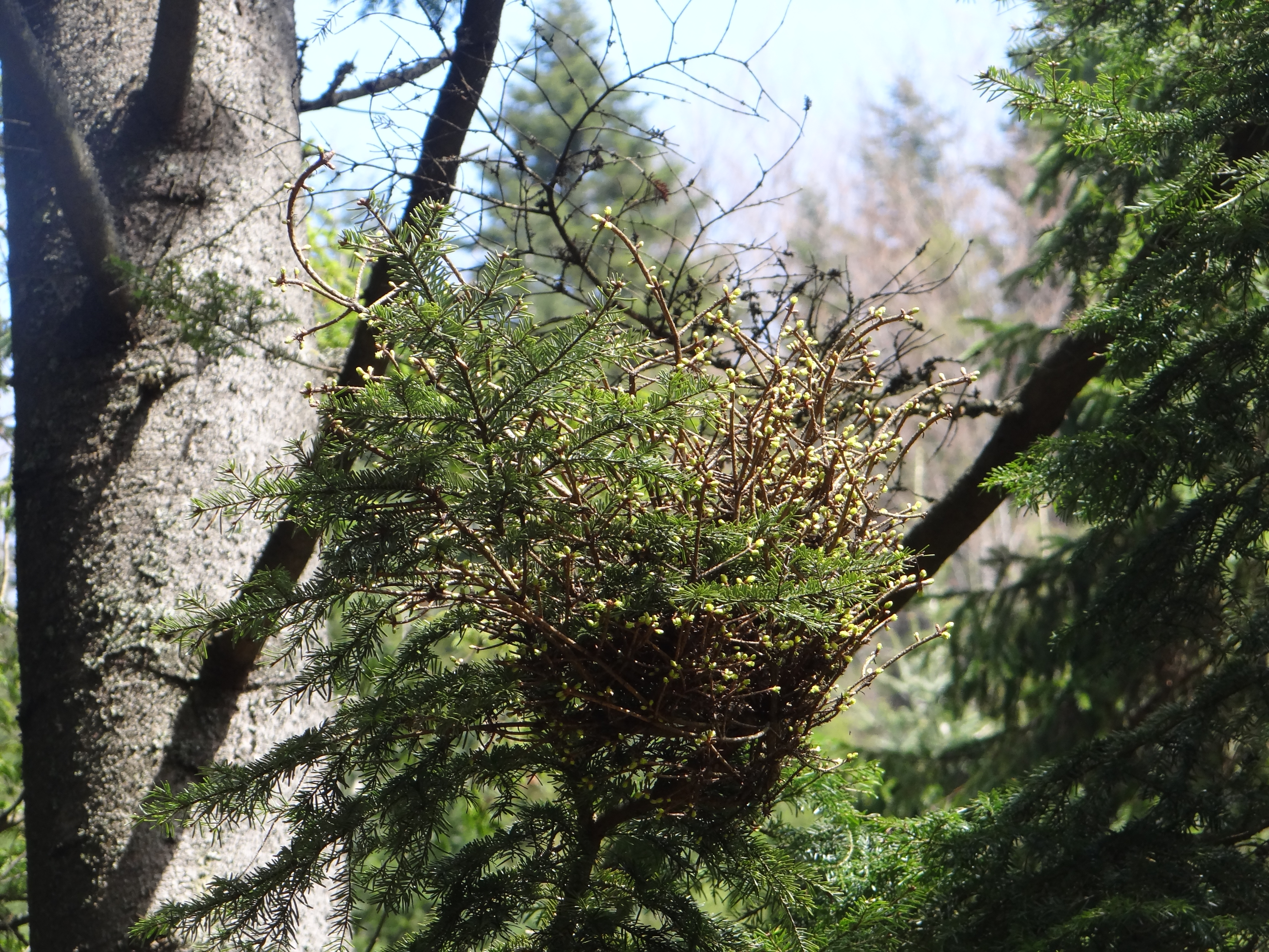 Melampsorella caryophyllacearum on Abies alba. Location: Poland, Gorce, Pasmo Lubania, Ochotnica Górna